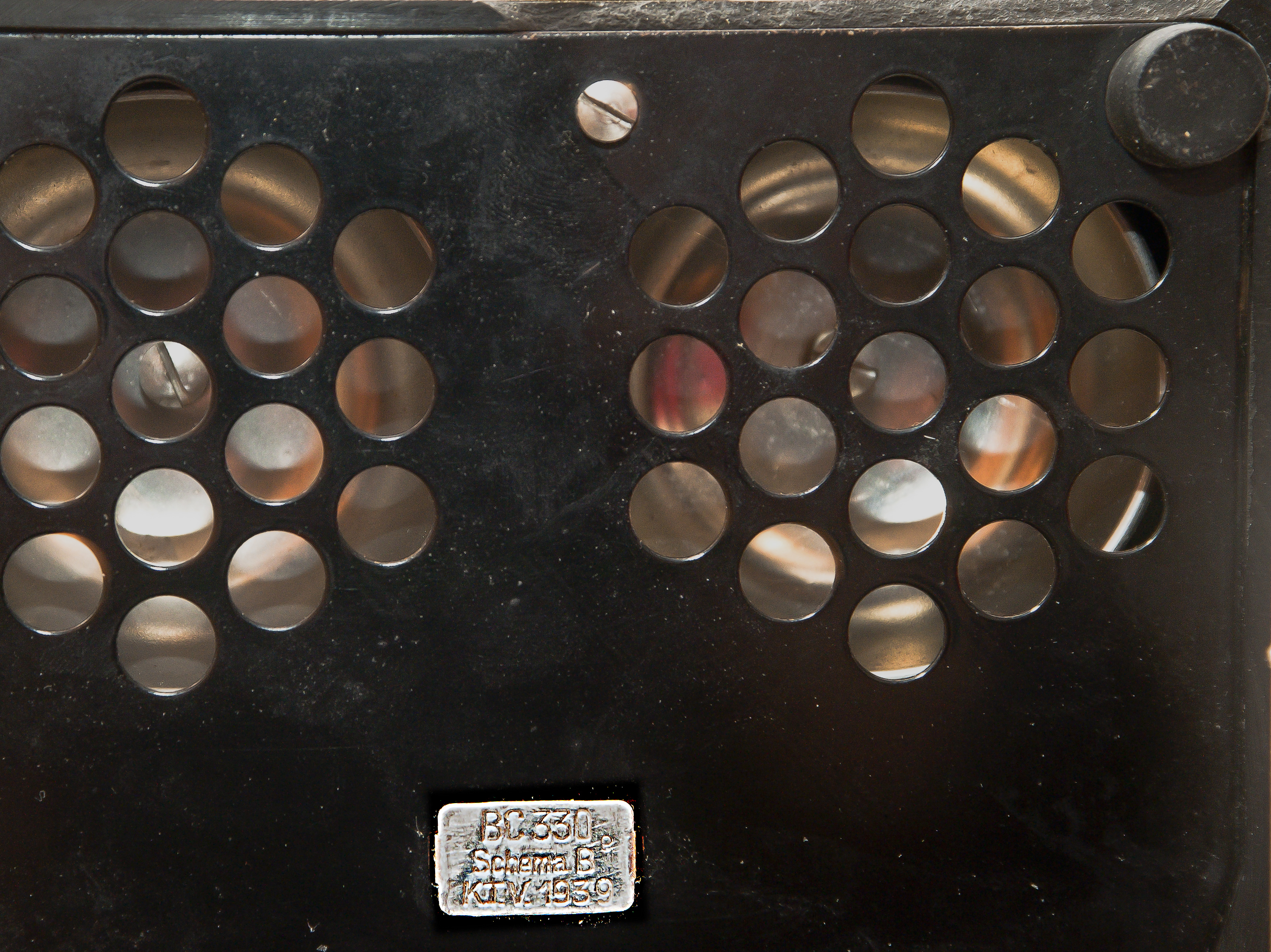 Telephone Ericsson DBH 1001 1939